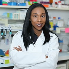 Photograph of Kandice Tanner.